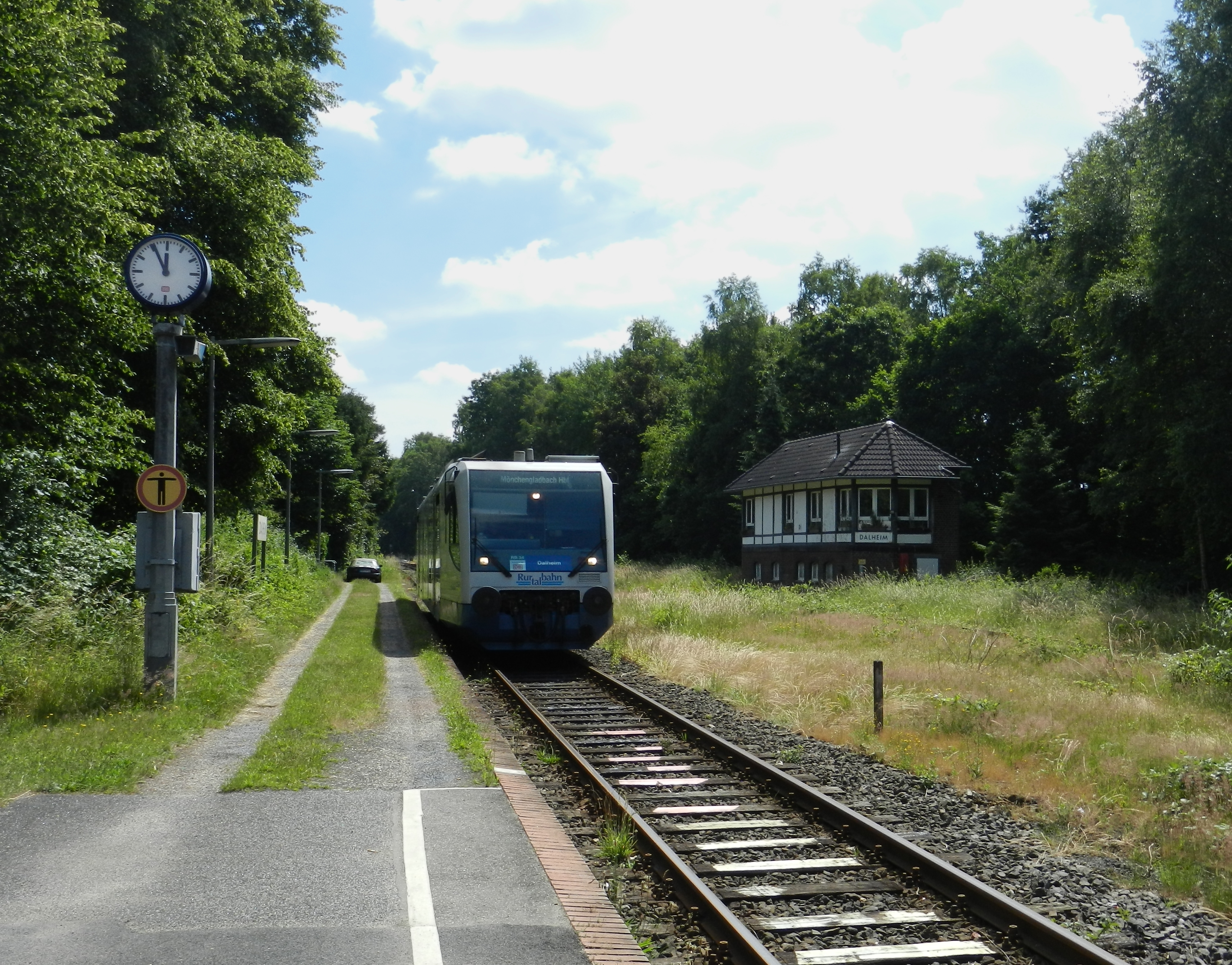 RegioSprinter 654 009-9 from Rurtalbahn on line RB 34 to Dalheim in Dalheim